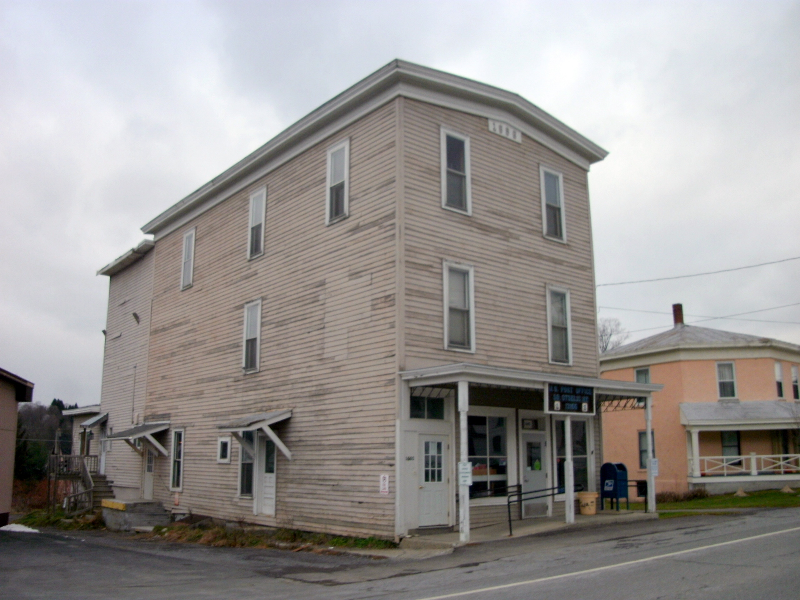 GE DIGITAL CAMERA South Otselic, New York